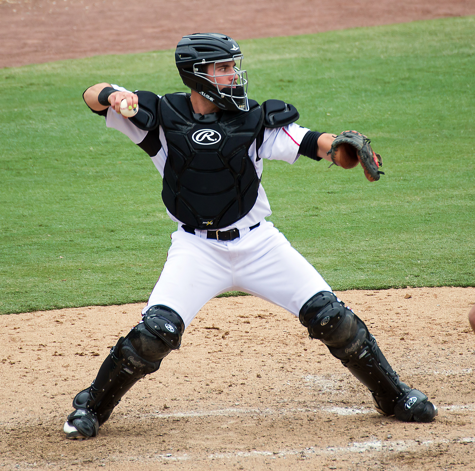 Austin Hedges, catcher for Lake Elsinore Storm minor league baseball team of the San Diego Padres in 2013.